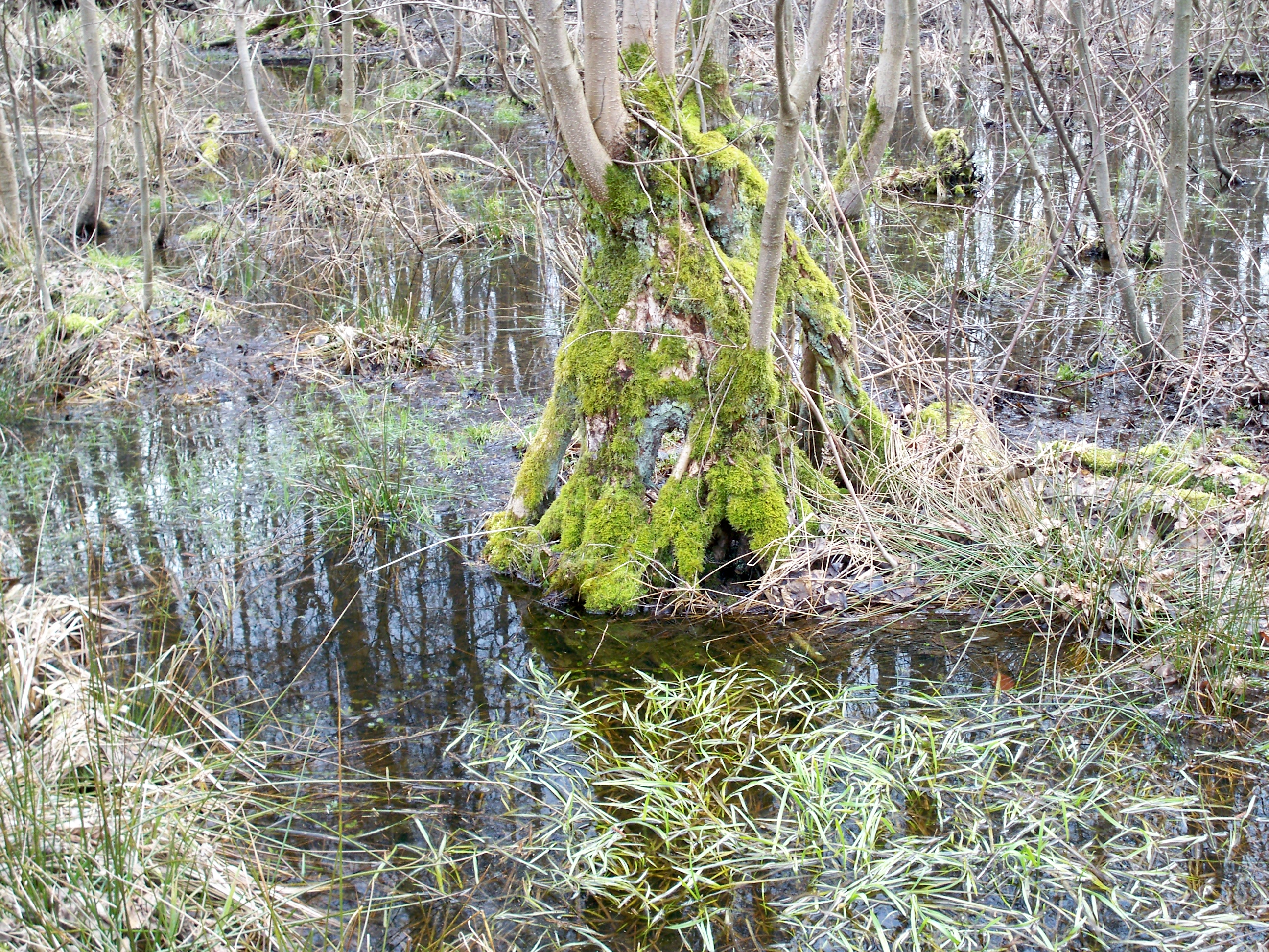 Beetzendorf, Saxony-Anhalt, Nature reserve Beetzendorfer Bruchwald und Tangelnscher Bach